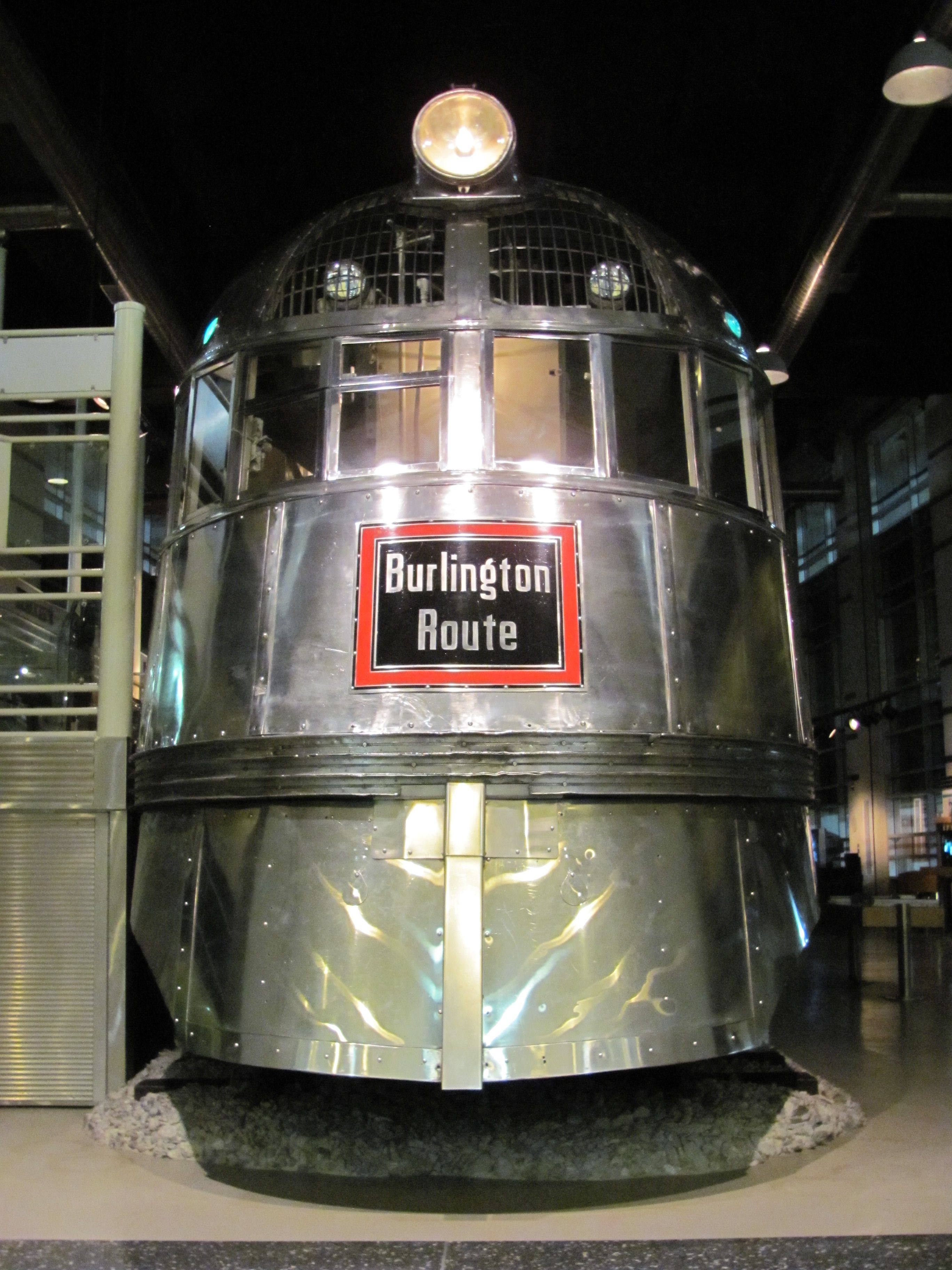 Burlington Zephyr in Museum of Technic and Industry, Chicago